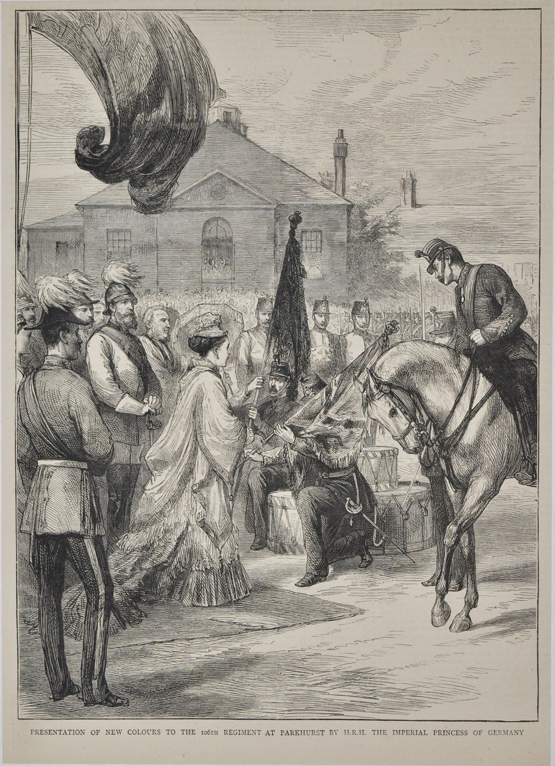 A wood engraving from The Graphic magazine of the presentation of new Colours to the 106th Regiment of Foot (Bombay Light Infantry) by Victoria, Princess Royal in 1874 on the Isle of Wight.